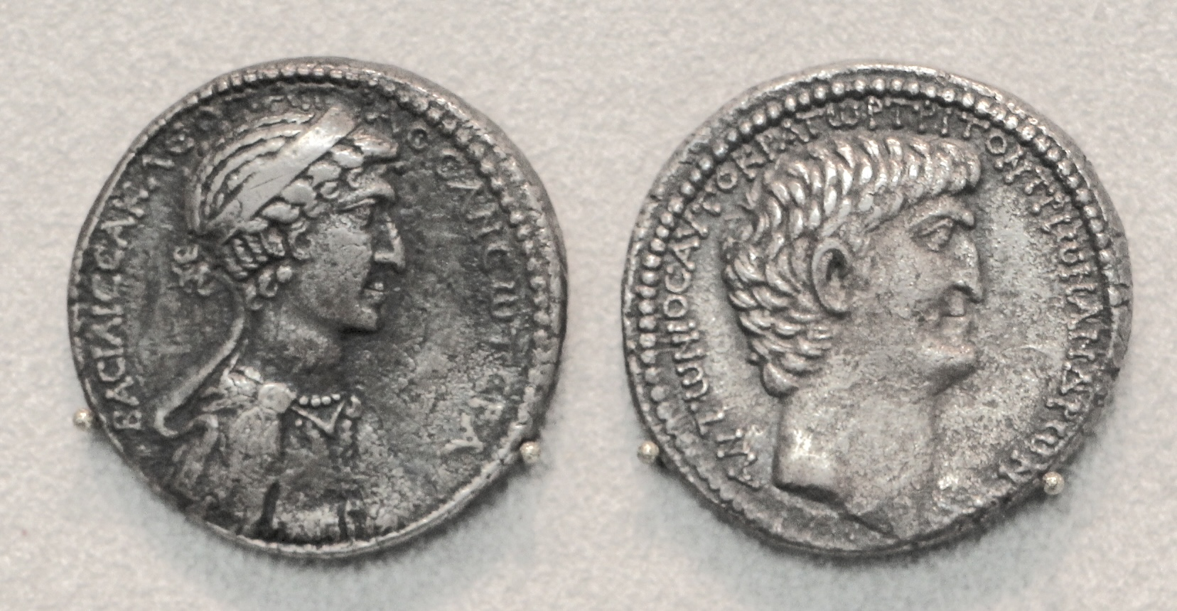 Ancient Greek coins in the Altes Museum Berlin